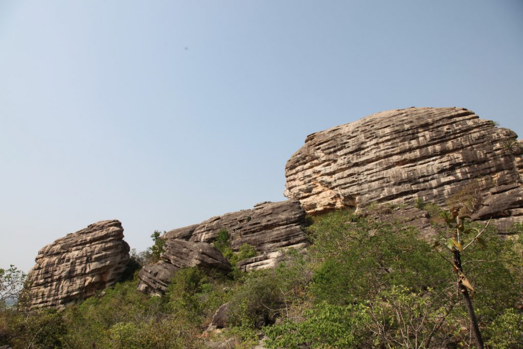 Pandavula Gutta in Jaya Shankar Bhupalapally District, Telangana